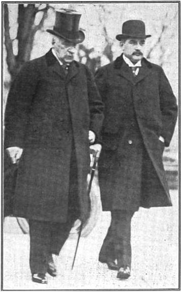 Last known photograph of J. Pierpont Morgan (J.P. Morgan) and his son J.P. (Jack) Morgan Jr. walking together